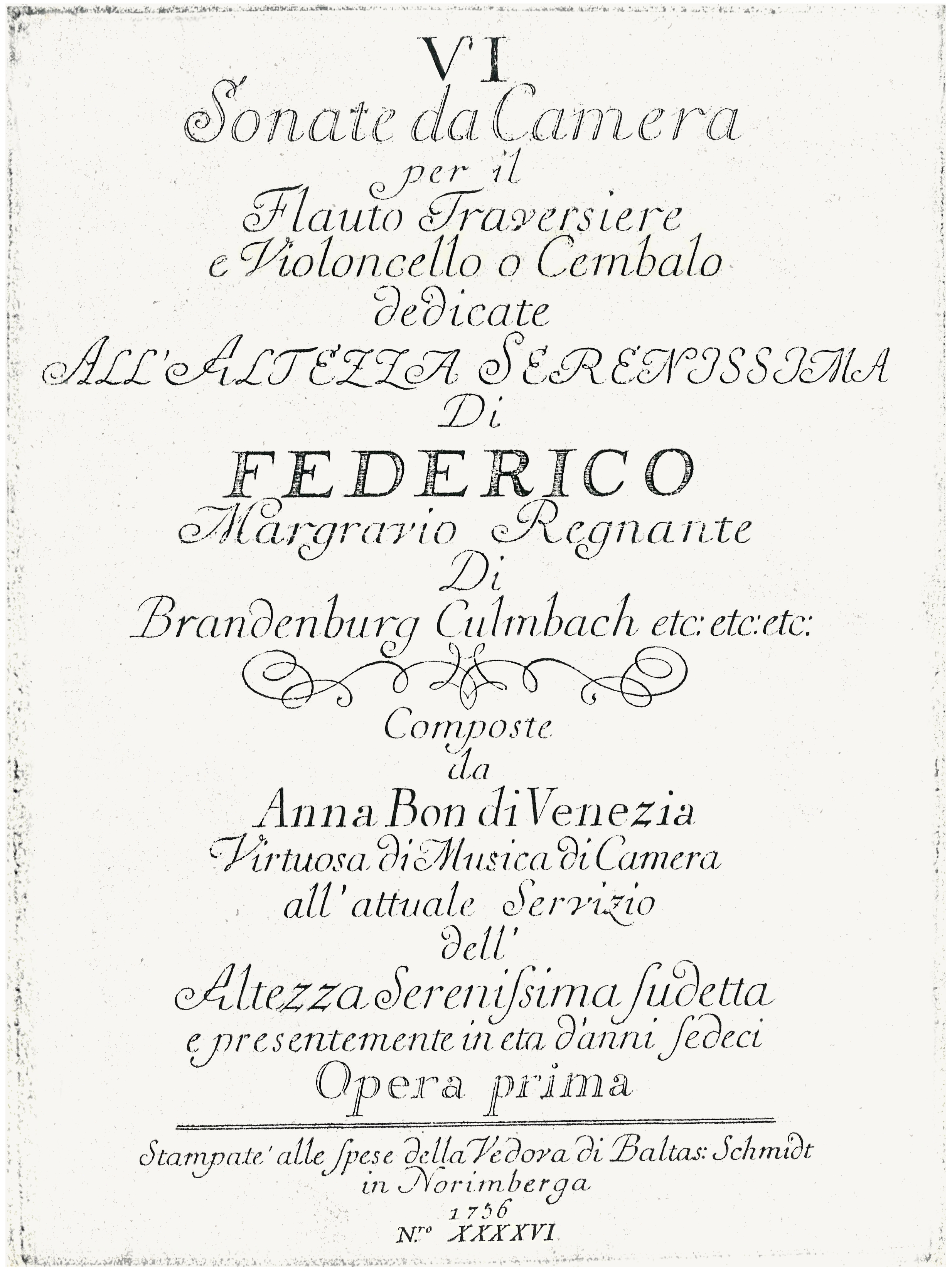 Anna Bon di Venezia, 6 Flute Sonatas op. I, 1756, dedicatet to Markgraf Friedrich von Bayreuth